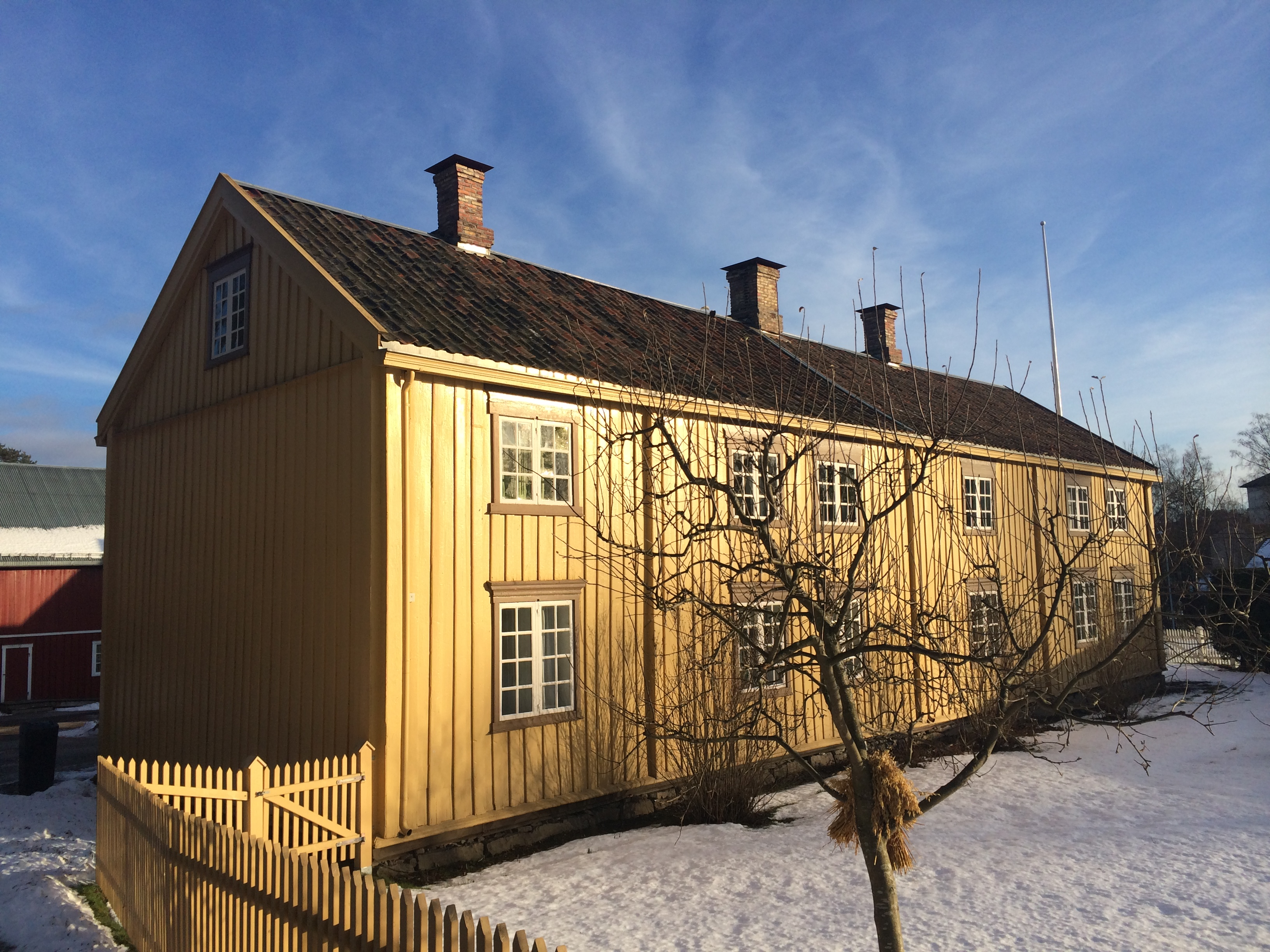 Trøndelagstunet (The Trøndelag Collection), cultural heritage farmstead buildings from the early 1800s, at the Norwegian Outdoor Museum of Cultural Heritage, Oslo, Norway.